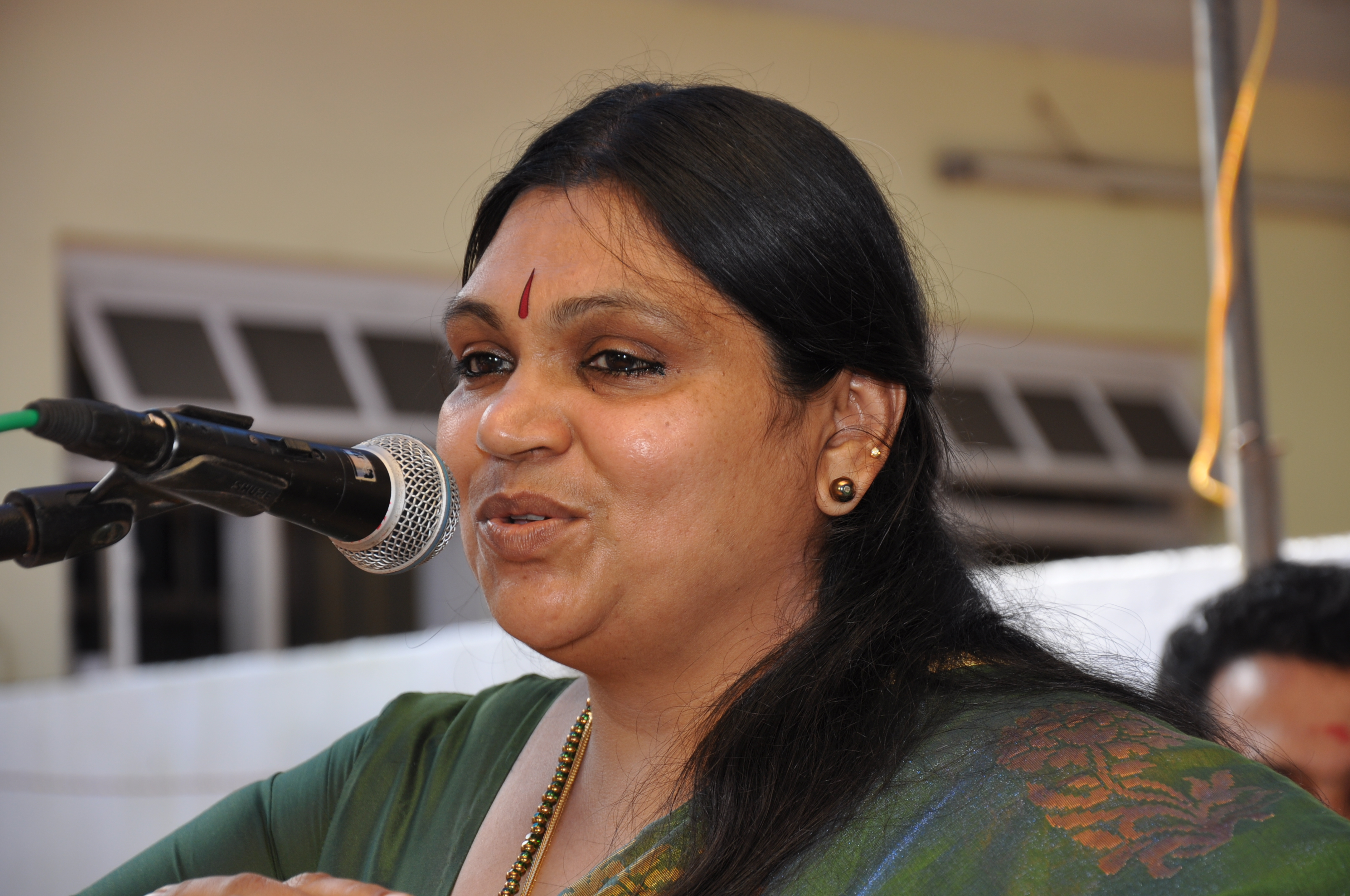 B Arundathy, film music singer ,Kerala